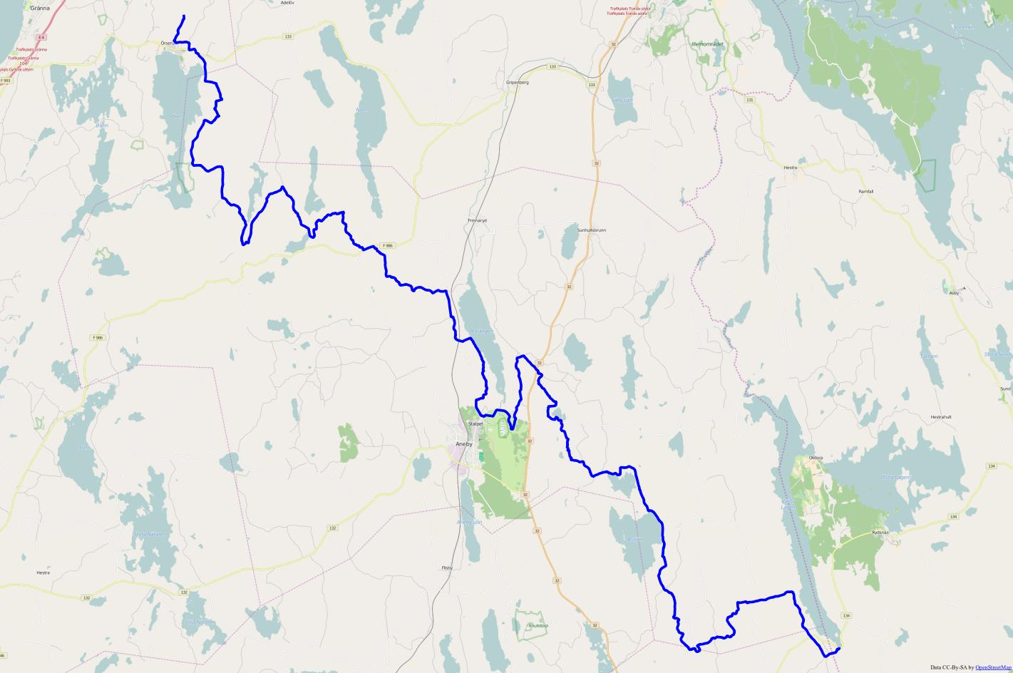 The Anebyleden long distance hiking trail in the province of Småland, Sweden.